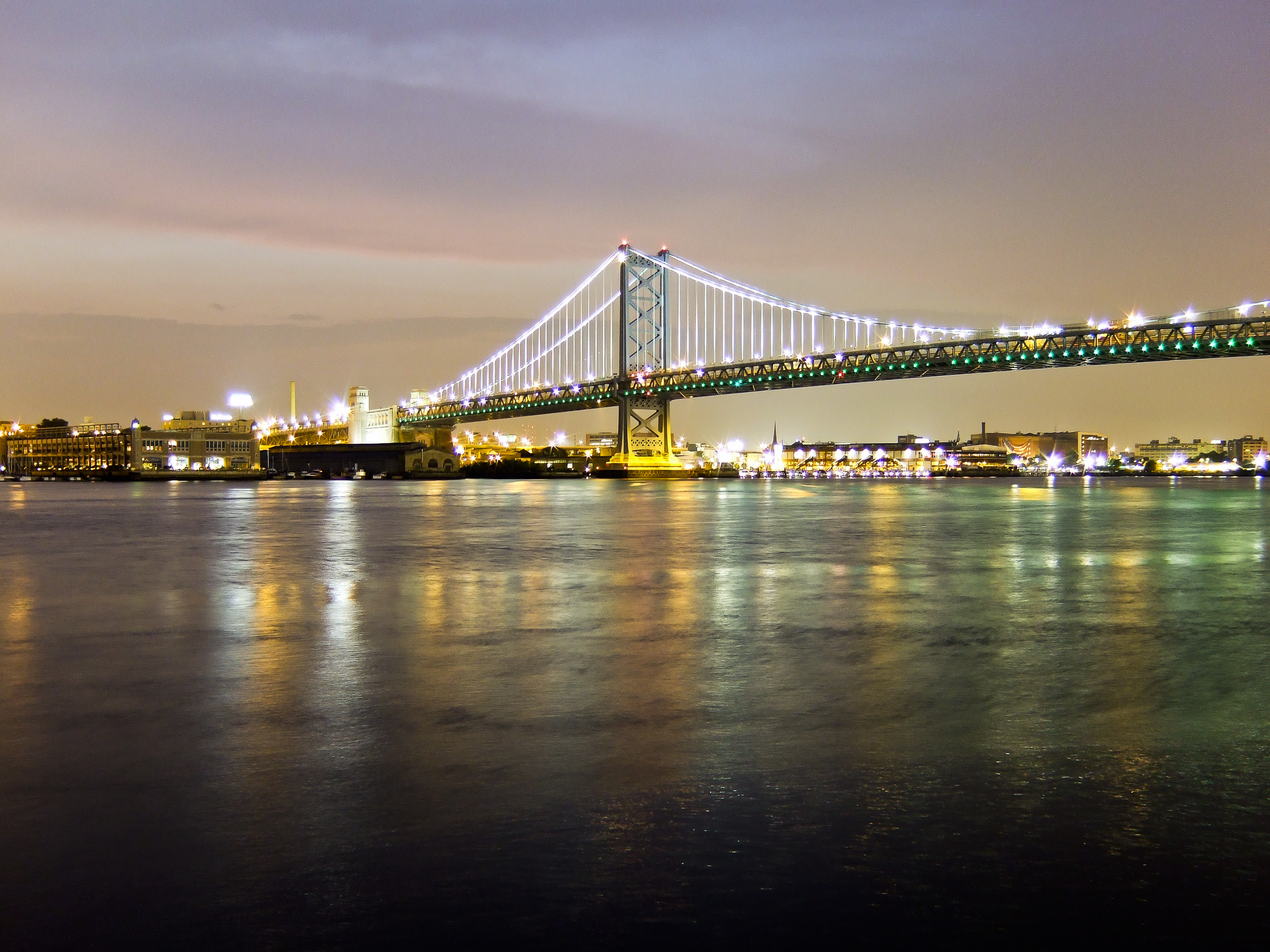 Philadelphia, Pennsylvania, USA